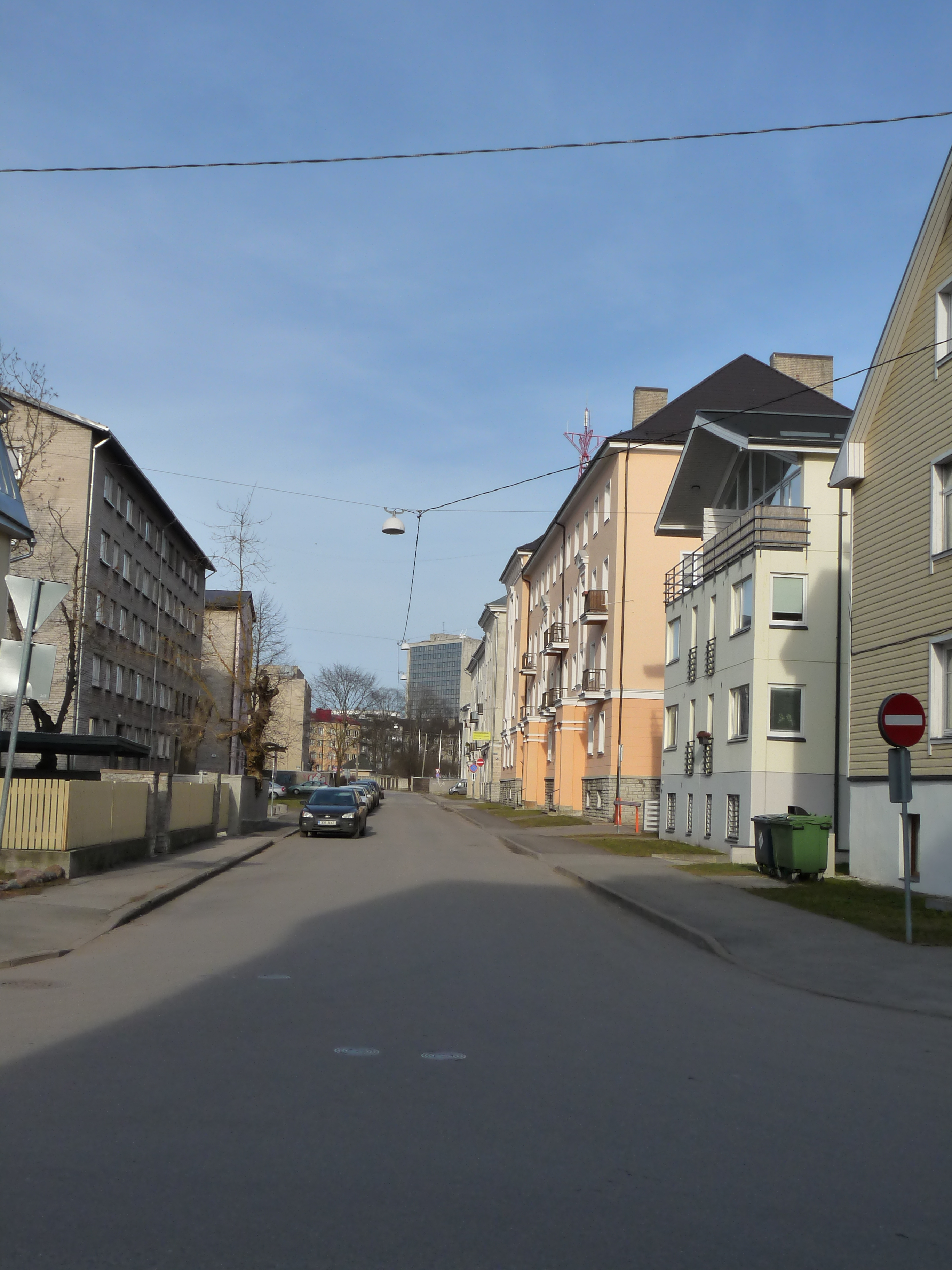 Kristiina street in Tallinn, Estonia